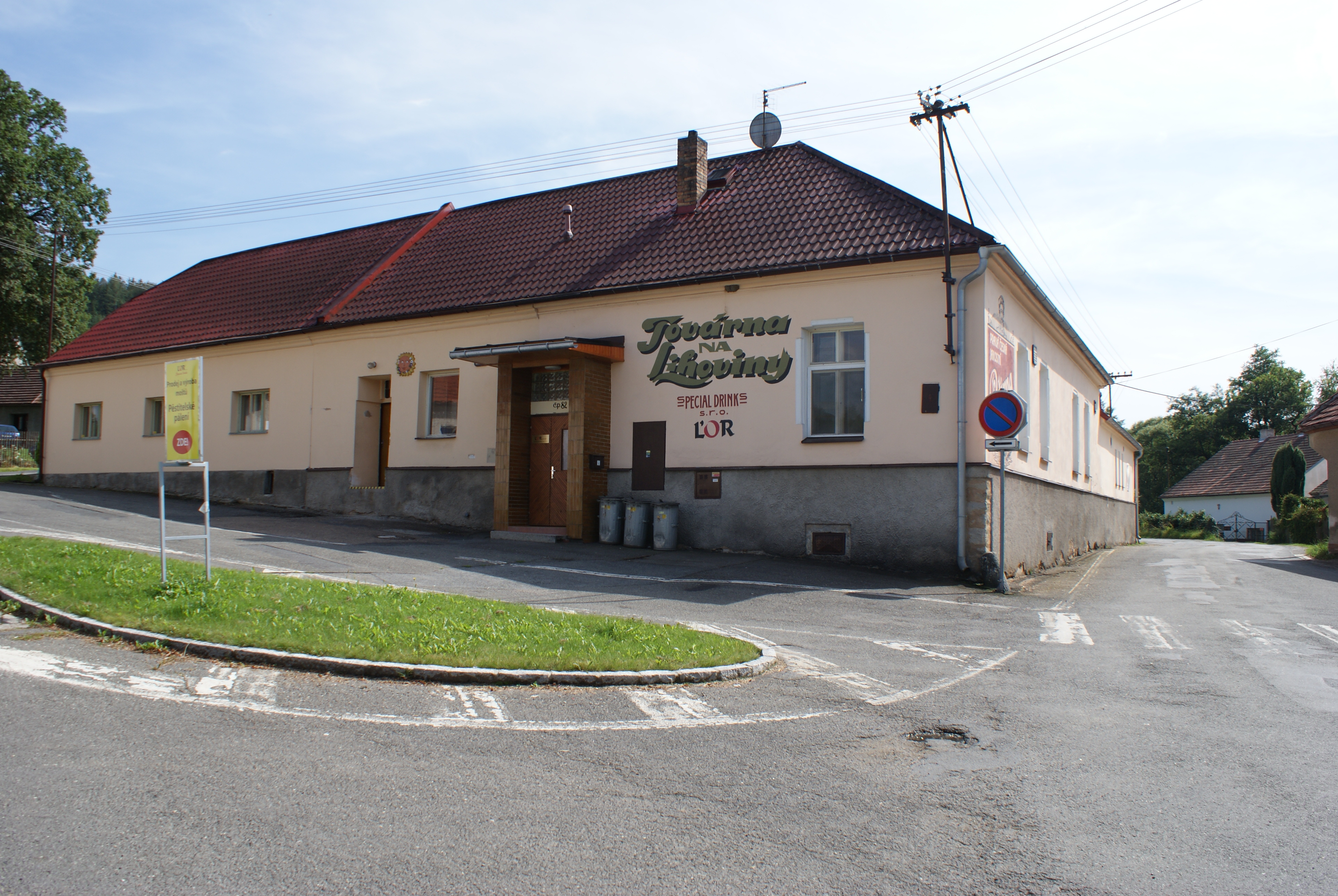 Prádlo, a village in Plzeň-South District, Czech Republic, distillery on the willage commons